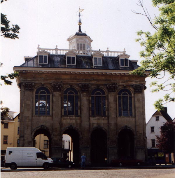 Former Berkshire County Hall in Abingdon, Oxfordshire. Now the town museum. Photo by DJ Clayworth.